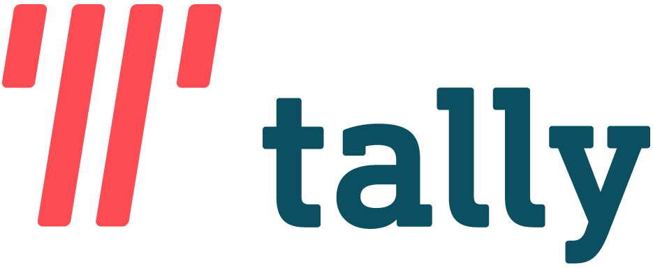 Tally Technologies Logo Horizontal